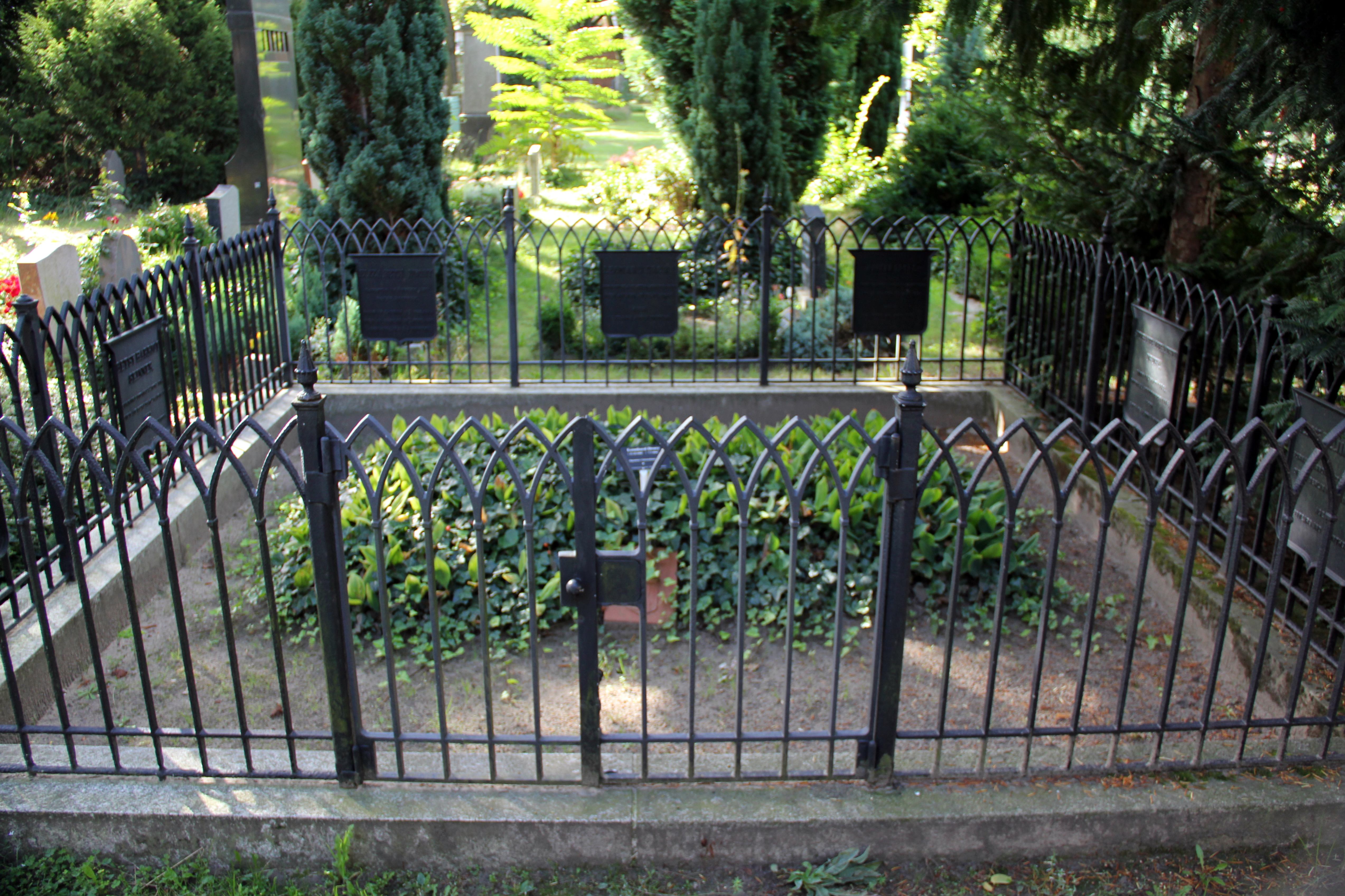 Grave of honor, Leonard Drory, Mehringdamm 21, Berlin-Kreuzberg, Germany